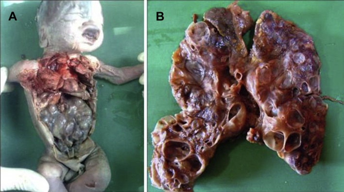 A: Gross photograph of fetus with opened abdomen showing polycystic horseshoe kidney. B: Gross photograph of cut section of polycystic horseshoe kidney showing cysts of different sizes.